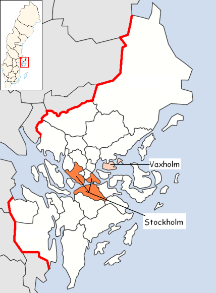 Vaxholm Municipality in Stockholm County Designed by me. Mere outlines are a PD source from